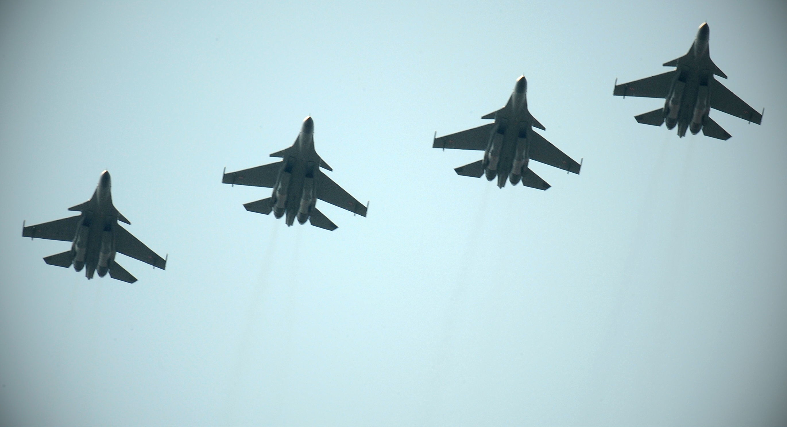 MOUNTAIN HOME AIR FORCE BASE, Idaho -- Four Indian air force SU-30K jets arrive at Mountain Home Air Force Base July 17 to train with Airmen here before participating in Exercise Red Flag at Nellis AFB, Nev., which begins Aug. 9. This is the first time in history the Indian air force has been on American soil to train with U.S. fighters. They will be taking advantage of Mountain Home's vast air space and multiple ranges to better prepare their aircrews for future flying missions.